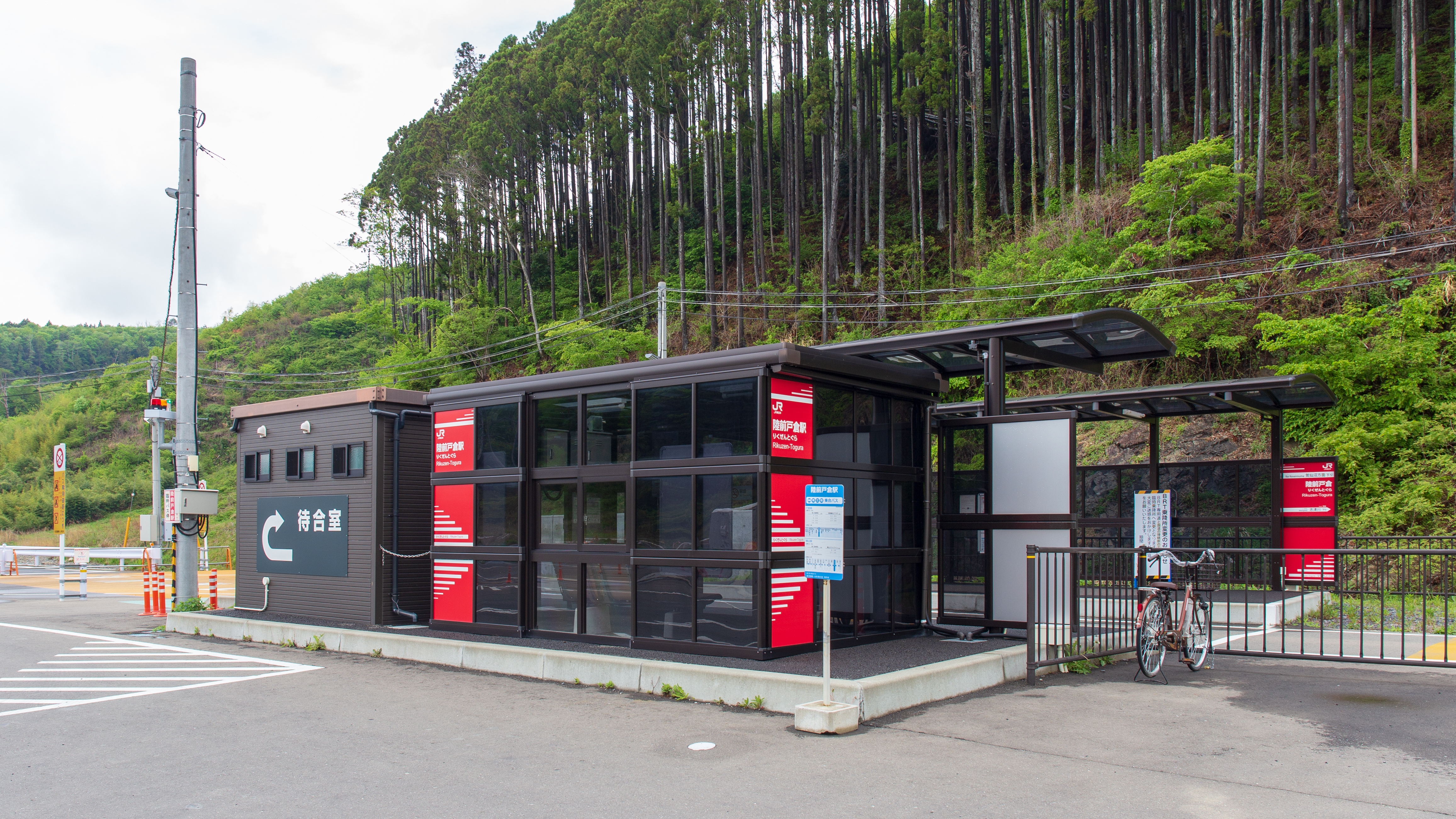 Rikuzen-Togura Station on the JR East Kesennuma Line BRT in Minamisanriku Town, Miyagi Prefecture, Japan